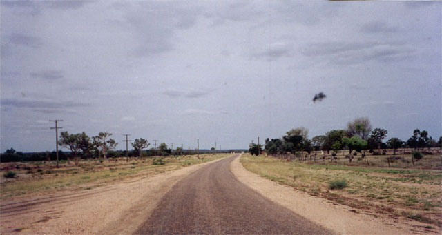 De Barkly Highway in Queensland, Australië (Eigen foto, 2000).